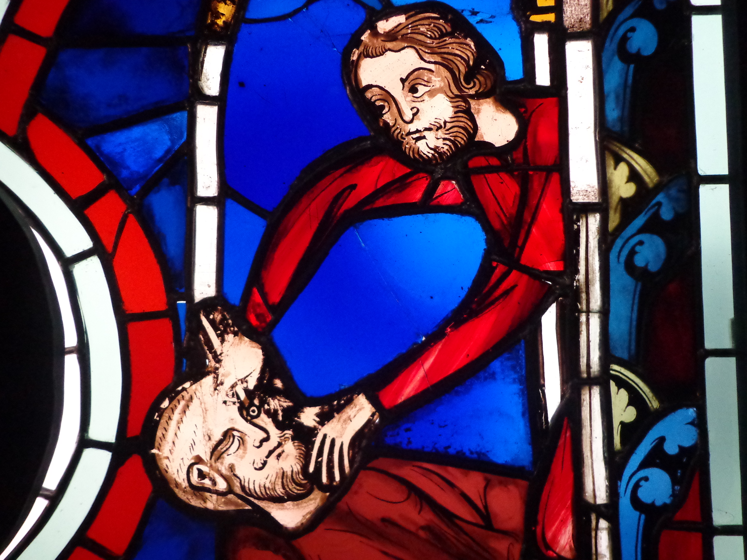 Some pictures taken in Paris, France, April 2014